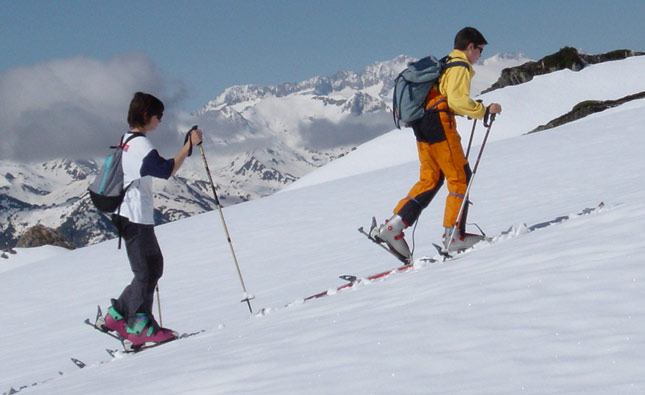 This picture is also displayed on other medias (details) Cette image apparaît aussi sur d'autres médias (détails) Ski mountaineering